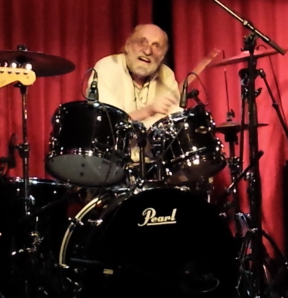 Swedish drummer Bosse Skoglund performing at jazz club Fasching in Stockholm